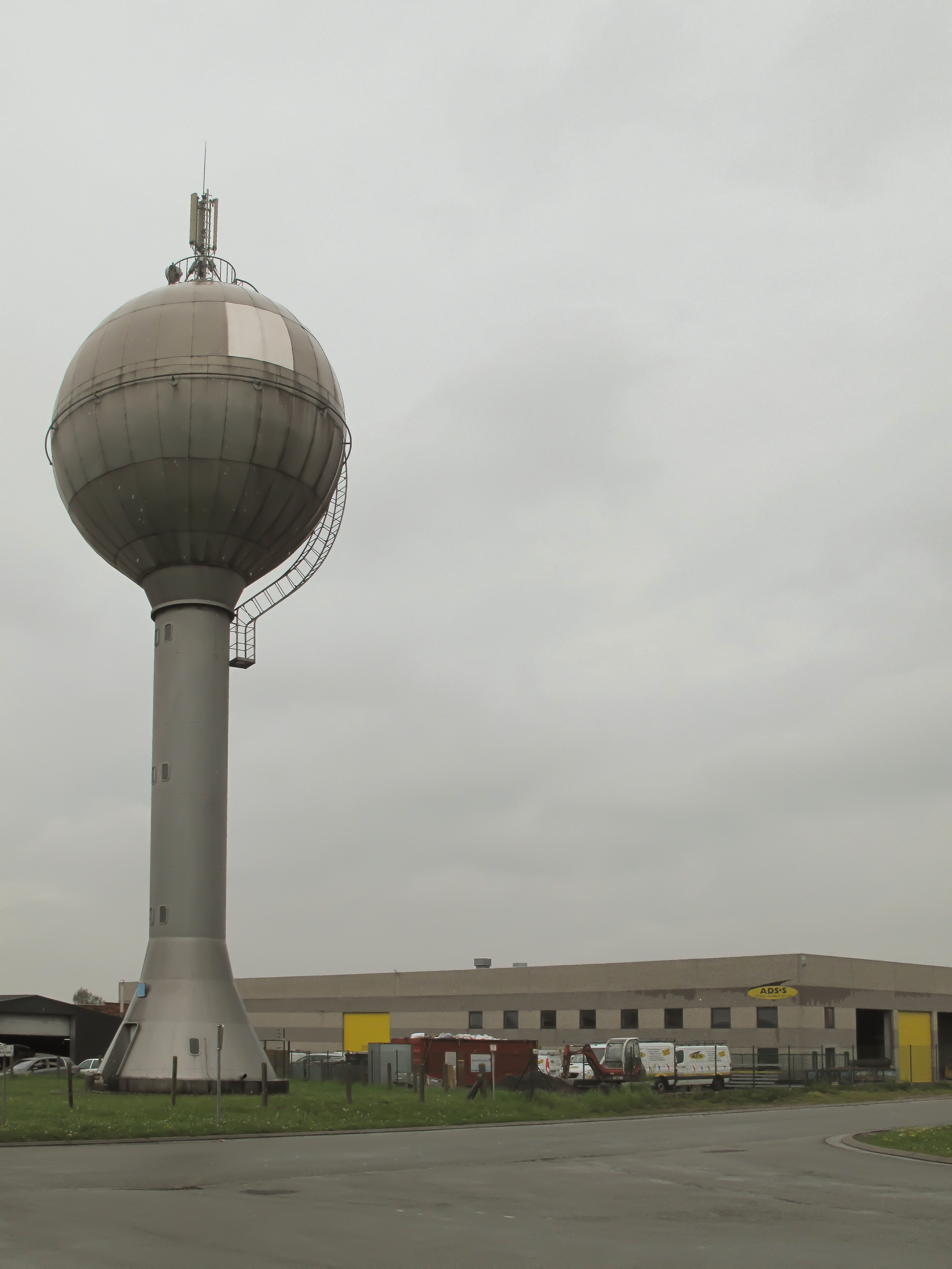 Meslin-Evêque, it might be a watertower